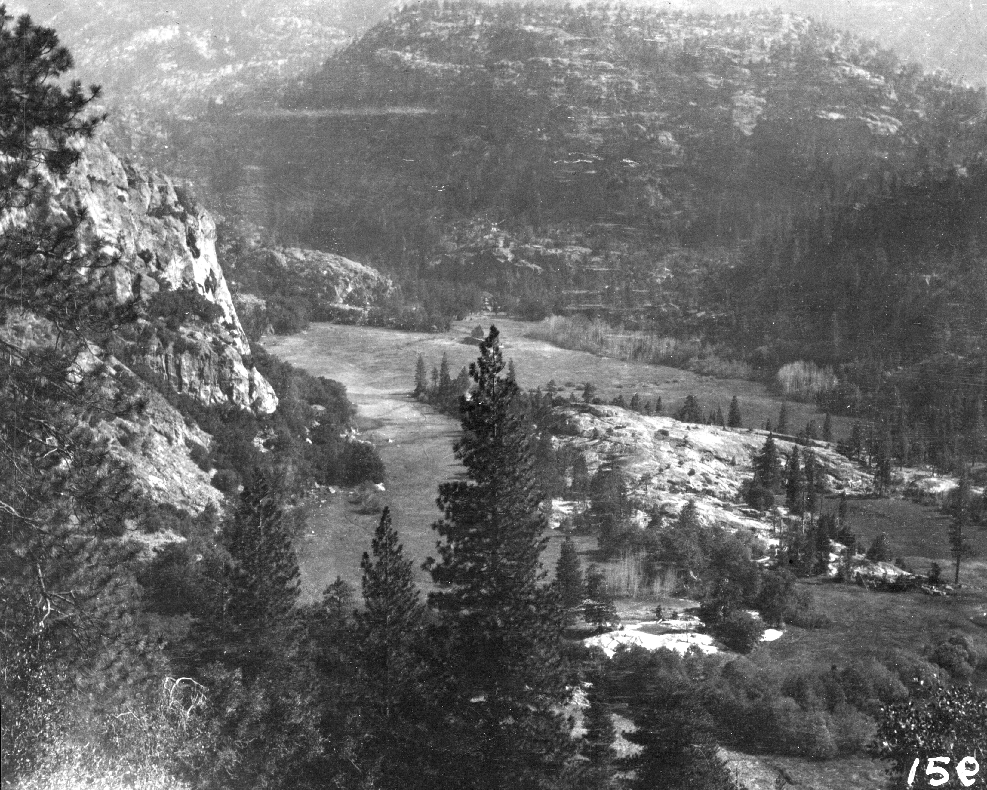 Tiltill Valley, viewed from Lake Vernon Trail (1913). In northern Yosemite National Park, California.